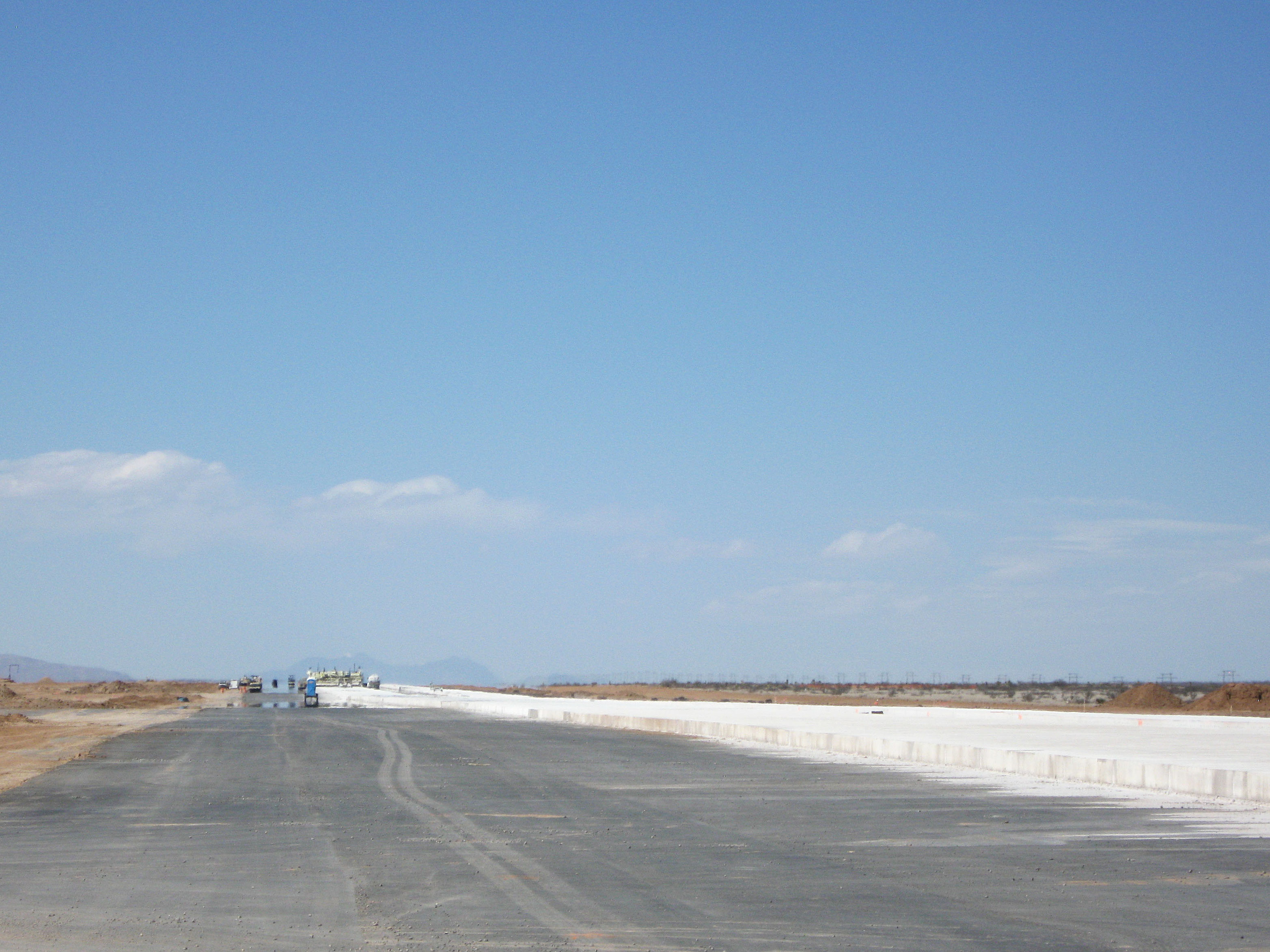 The runway at Spaceport America as of March 2010, still under construction. On the left side is a layer of asphalt, and on the right a 14-inch layer of concrete laid above the asphalt. Under the asphalt is a cement-treated subgrade. At the far end are the machines that lay the concrete.